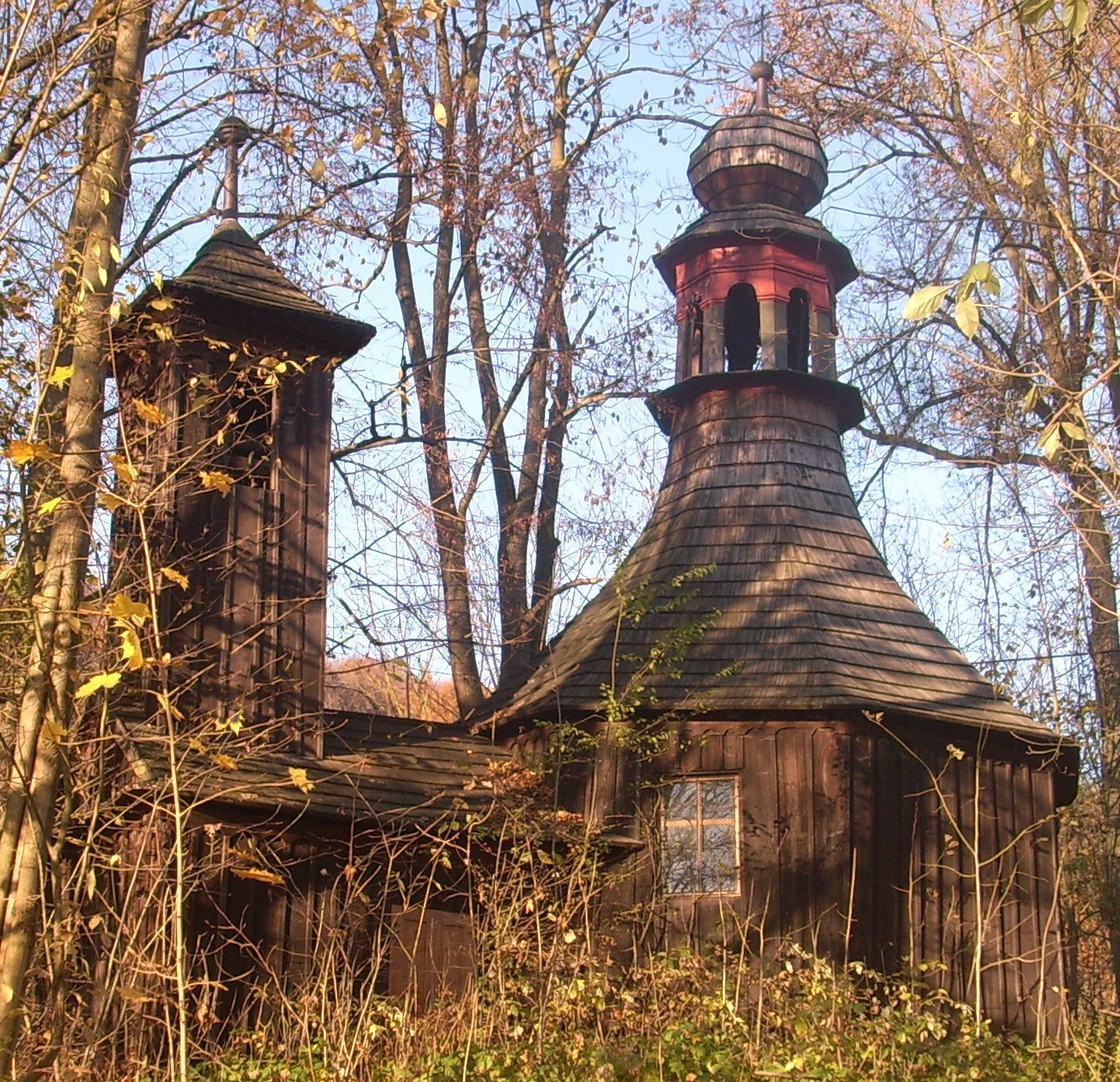 Wooden chapel in Horní Houžovec